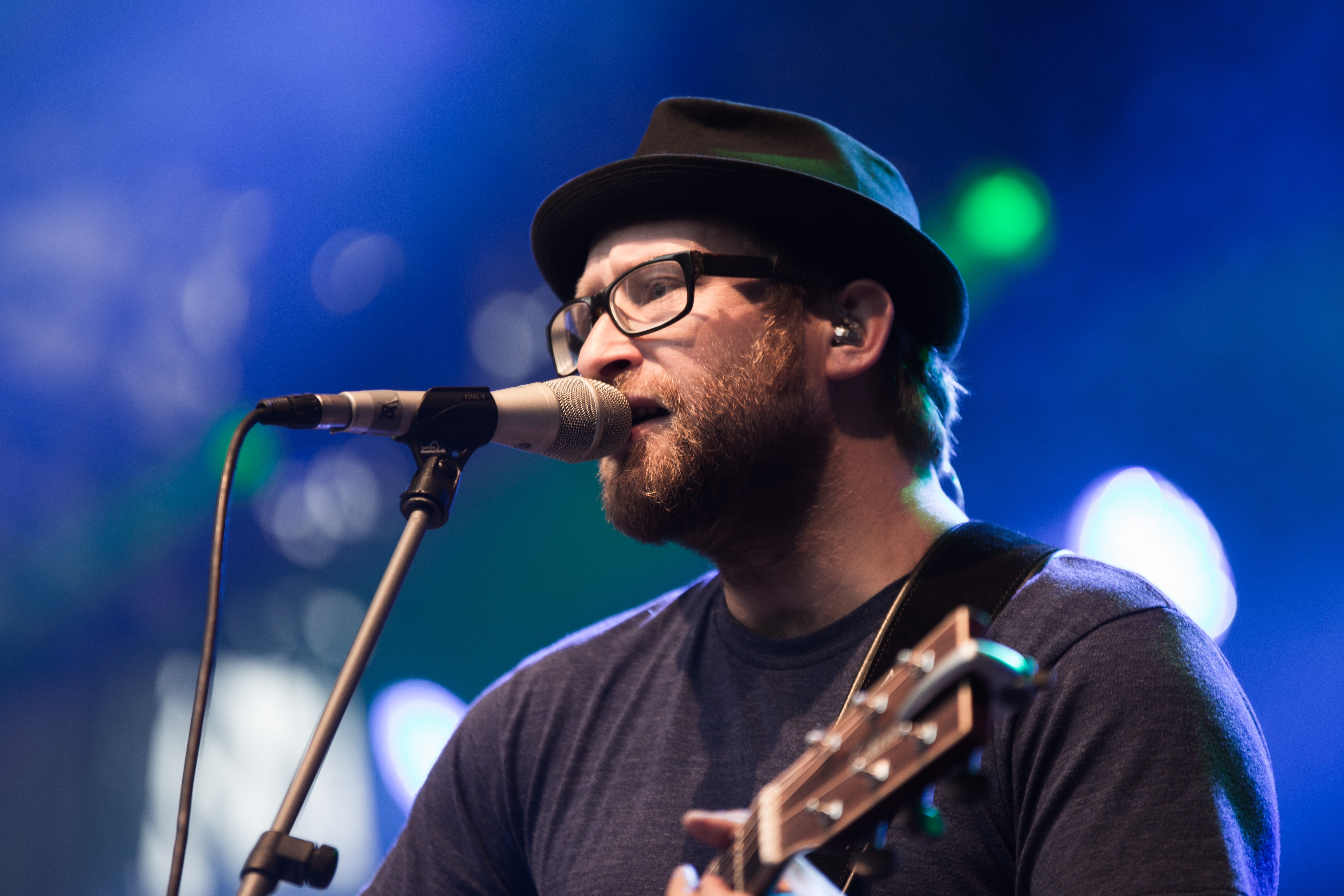 Water is Right TTF.Rudolstadt 2014 Festivalsommer This photo was created with the support of donations to Wikimedia Deutschland in the context of the CPB project "Festival Summer".